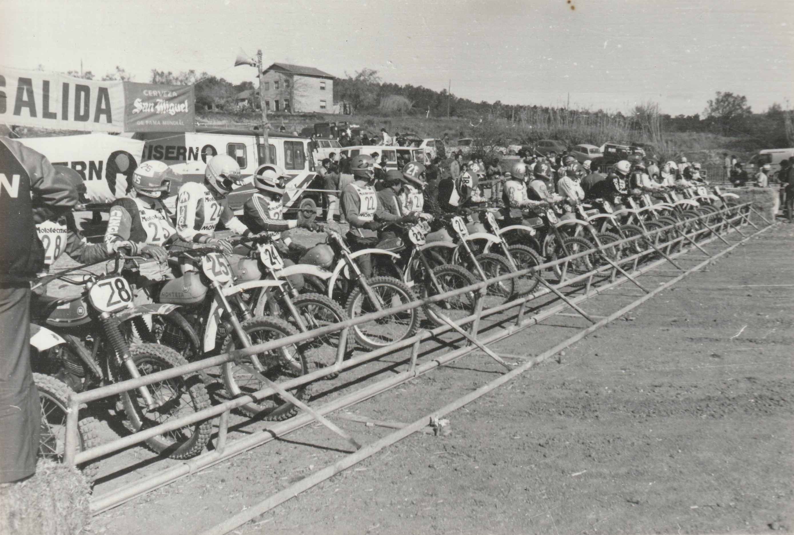 The starting grid of the 1979 Trofeo Montesa in Gallecs